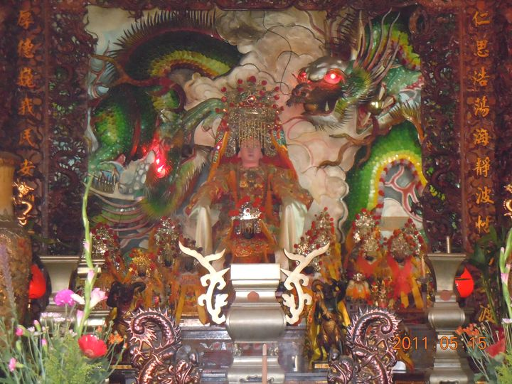 Renhou Temple, Madou, Tainan.